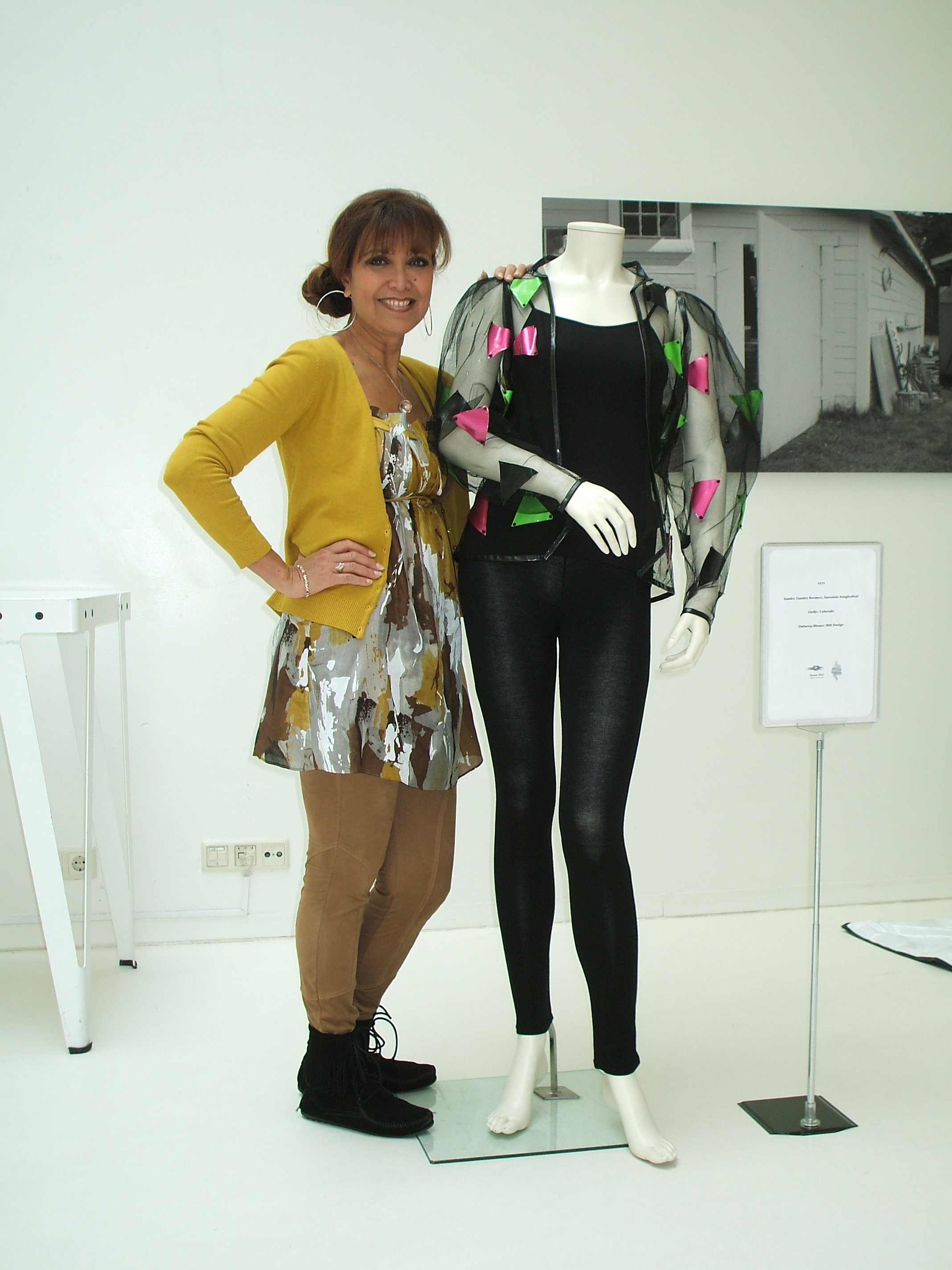 Sandra Reemer with her 1979 Eurovision Song Contest suit at the "May we have your dress, please?!" exposition for benefit of the Sandra Reemer Foundation